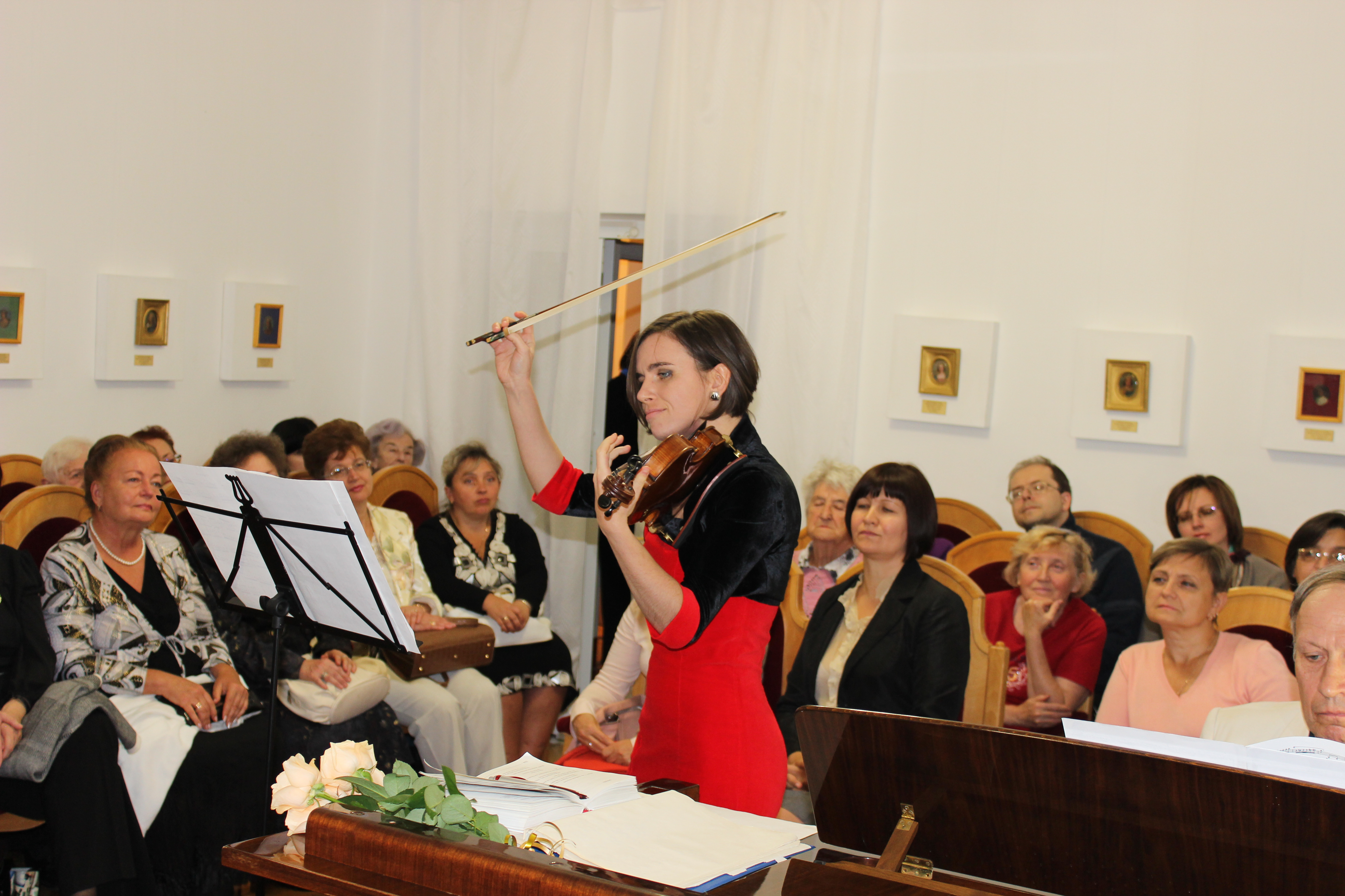 Futorska